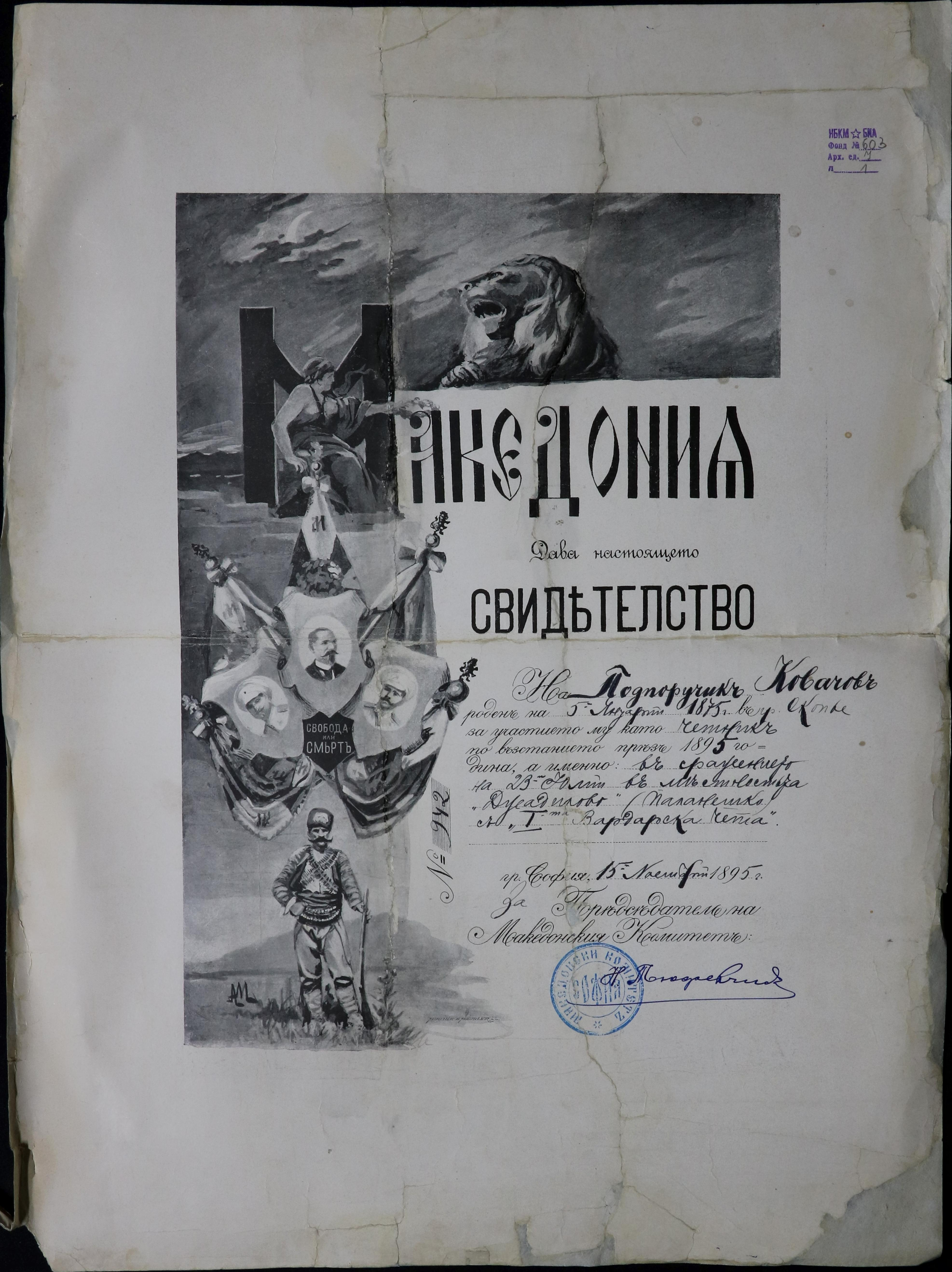 Macedonian Committee Certificate of Slavcho Kovachev 1895